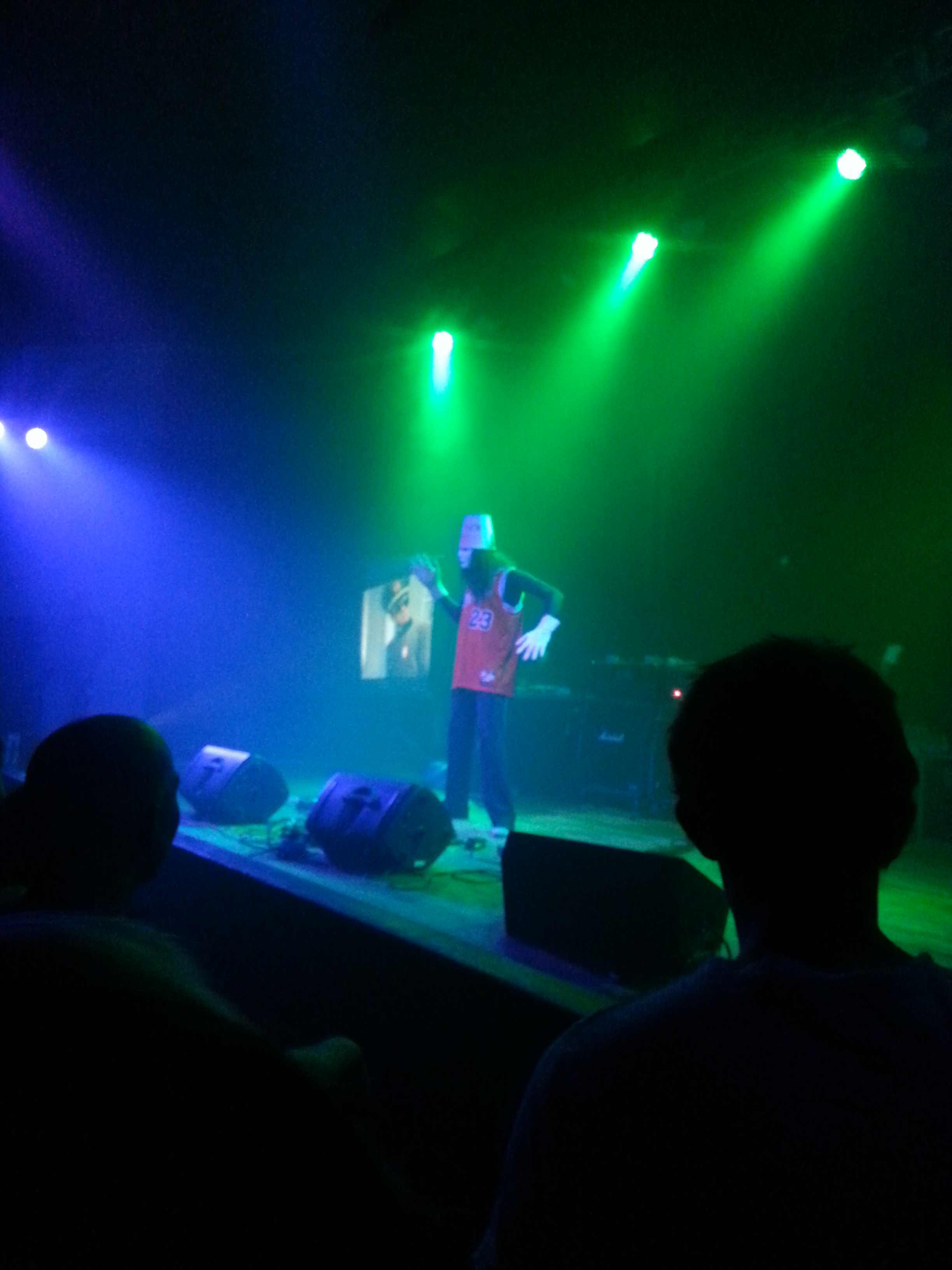 Guitarist Buckethead playing at the Granada Theater in Lawrence, Kansas on April 15, 2016.